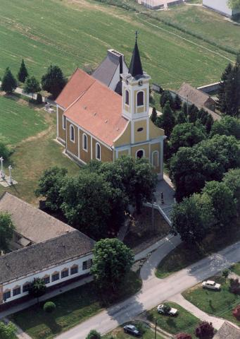 Lánycsók, Hungary, aerialphotography